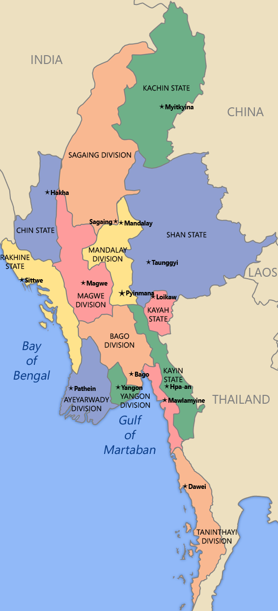 A map of Myanmar's divisions/states, and their respective capitals. Vectors are based on Geographica's World Reference.